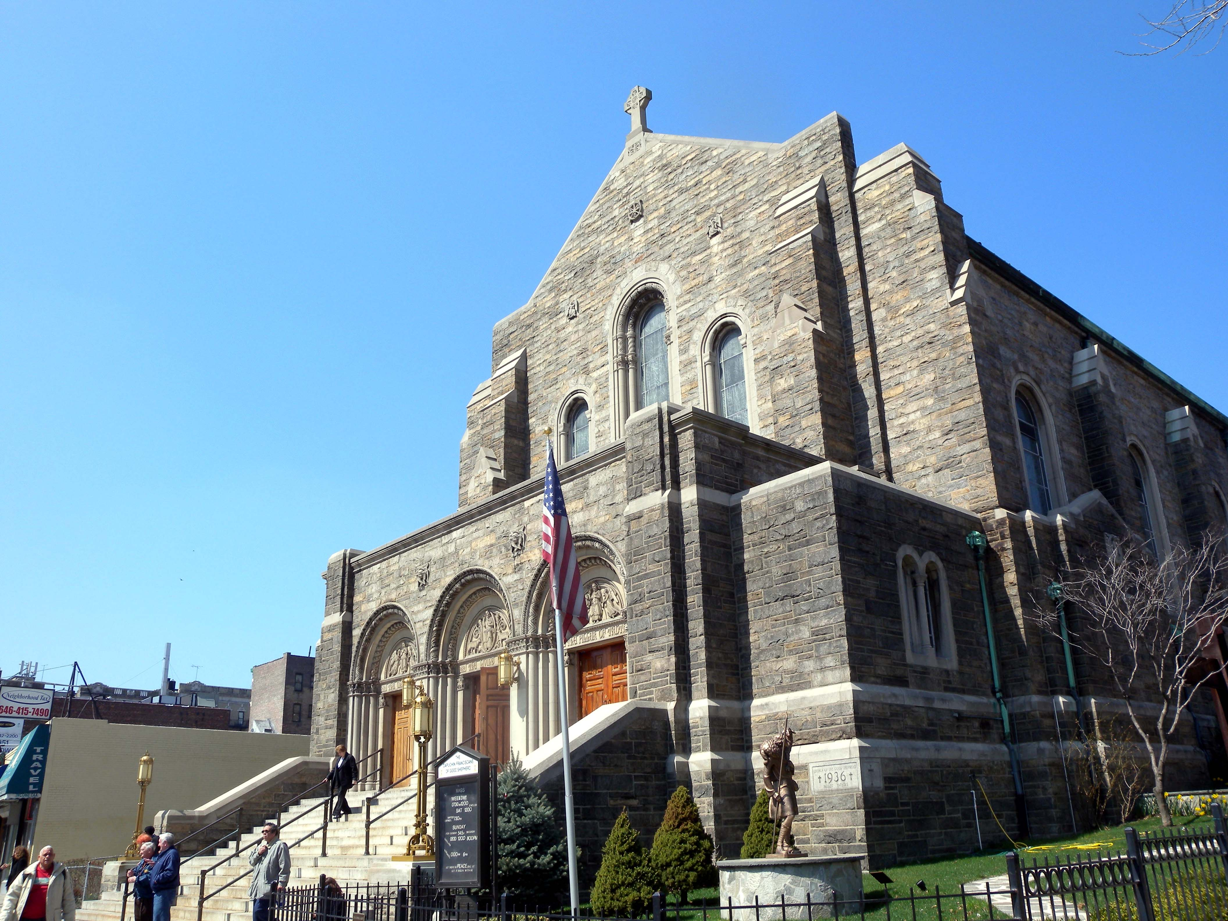 Looking west at Roman Catholic Church of the Capuchins on Broadway and Isham Street on a sunny midday. ZIP 10034.